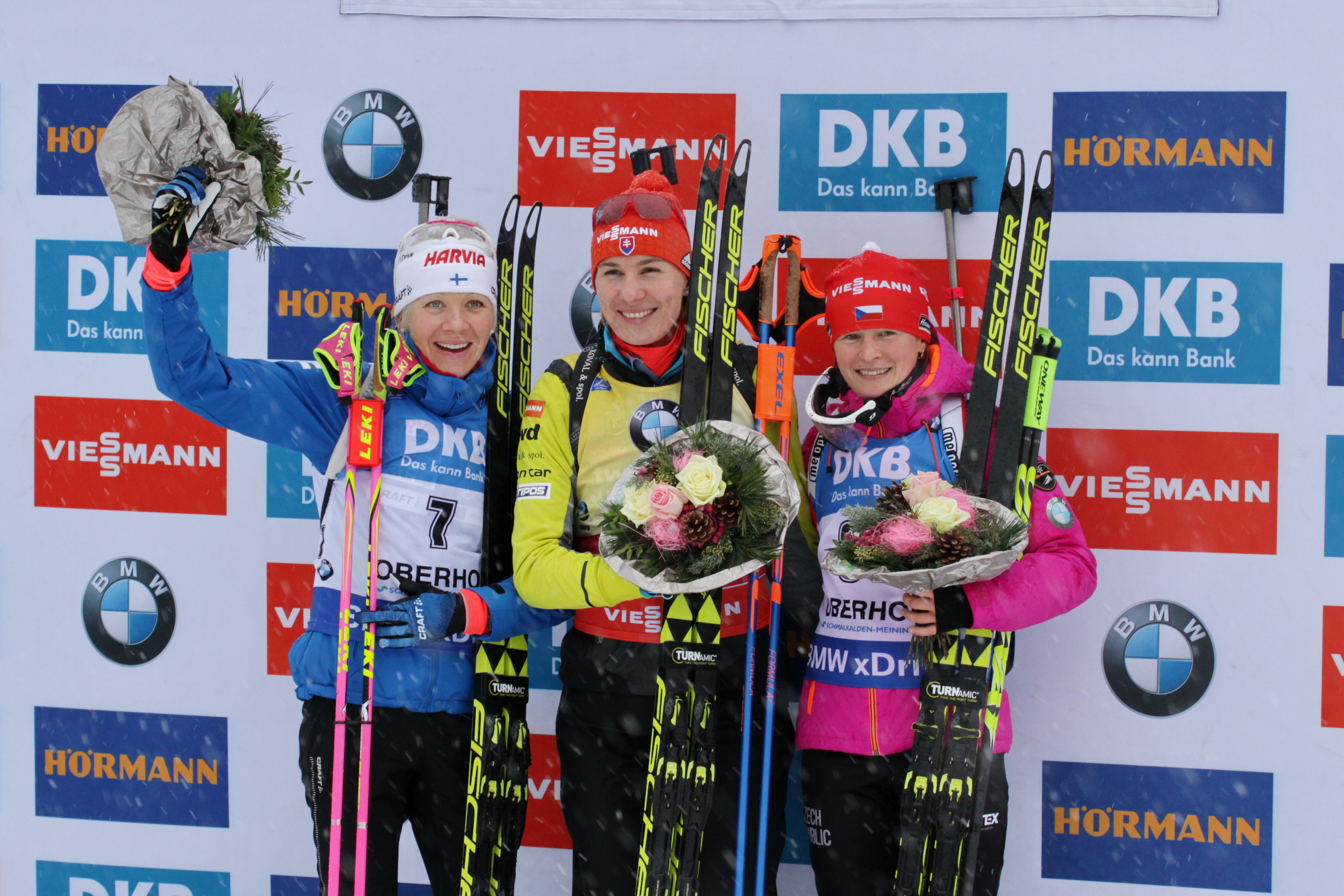 2018 Oberhof Biathlon World Cup - Sprint Women